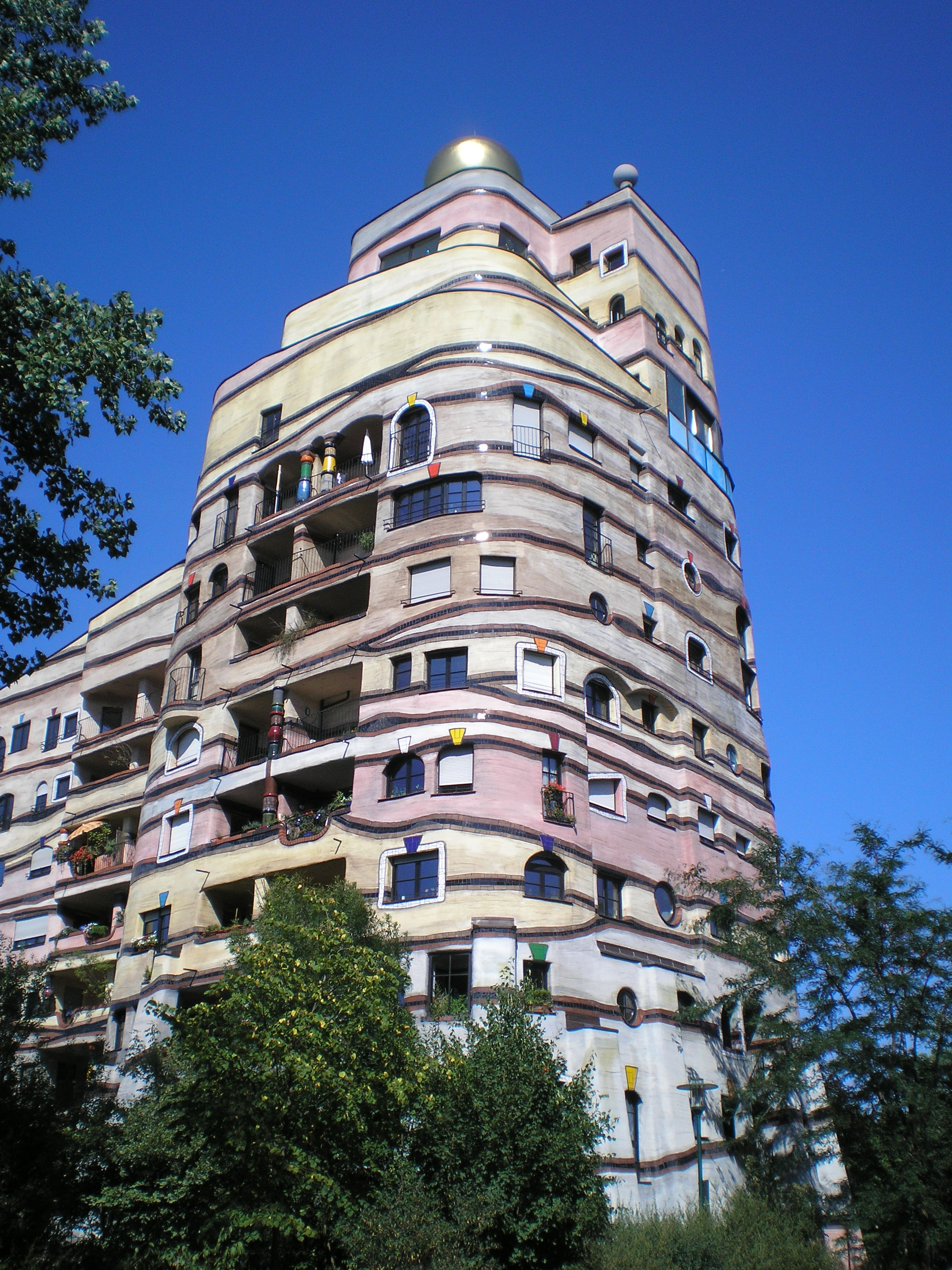 Waldspirale Darmstadt.